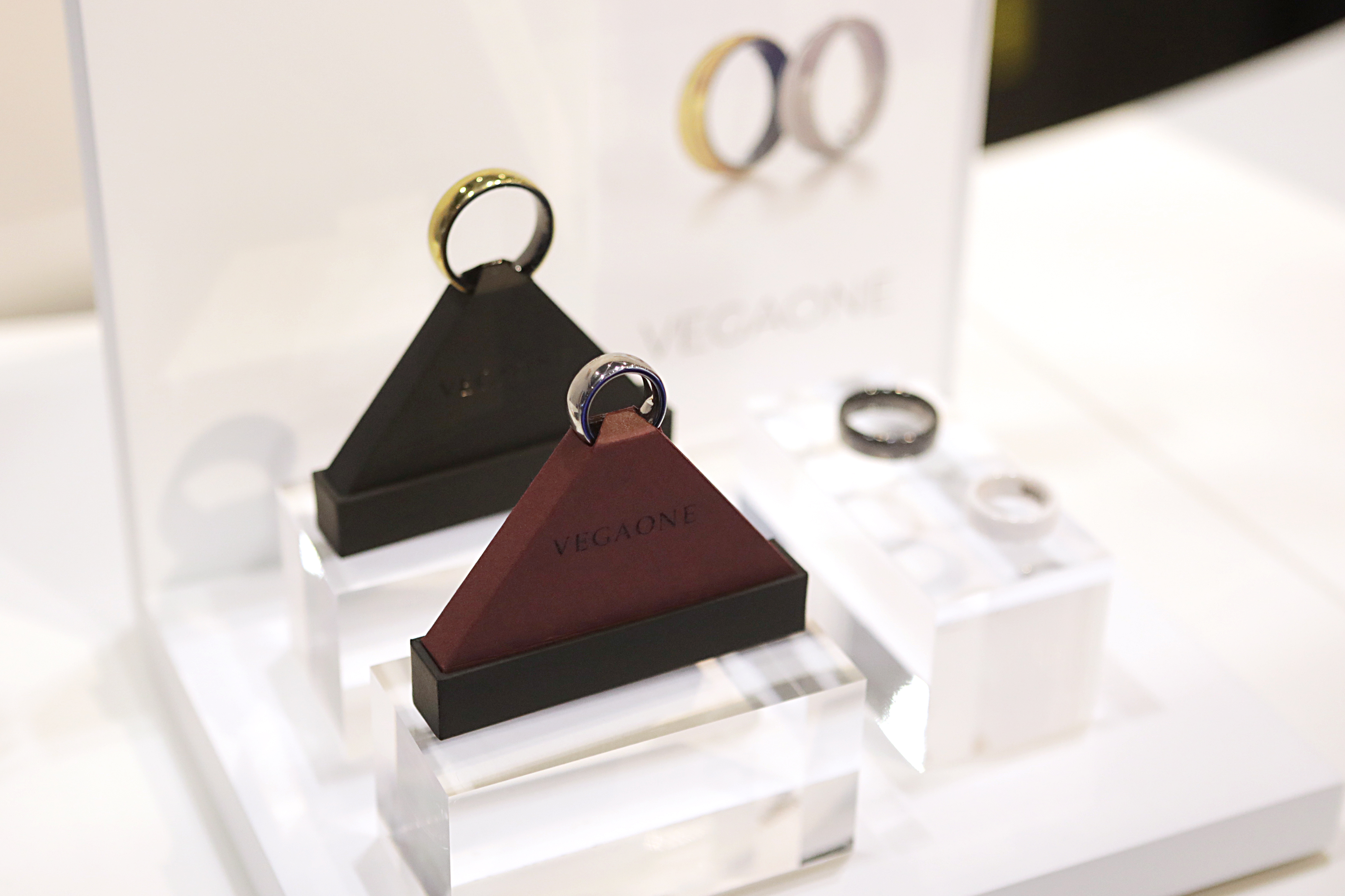 Contactless payment rings made by NFC Ring under Project VEGAONE